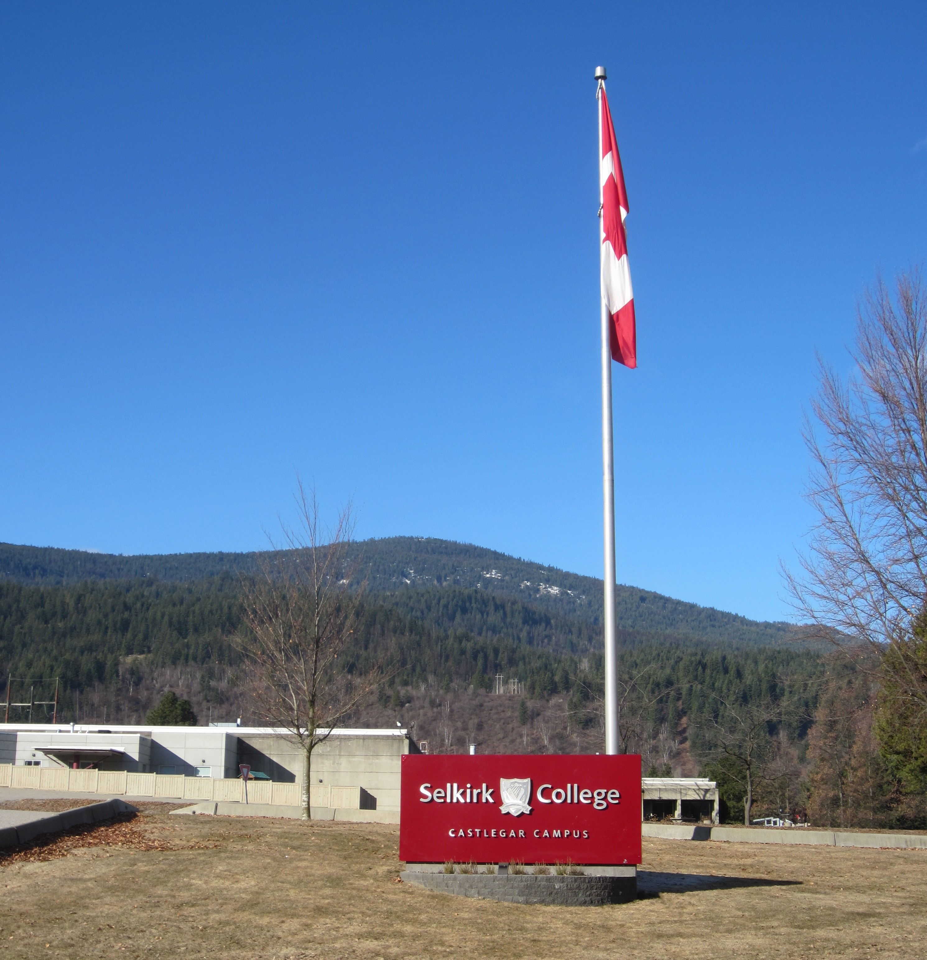 Campus at Selkirk College, Castlegar BC